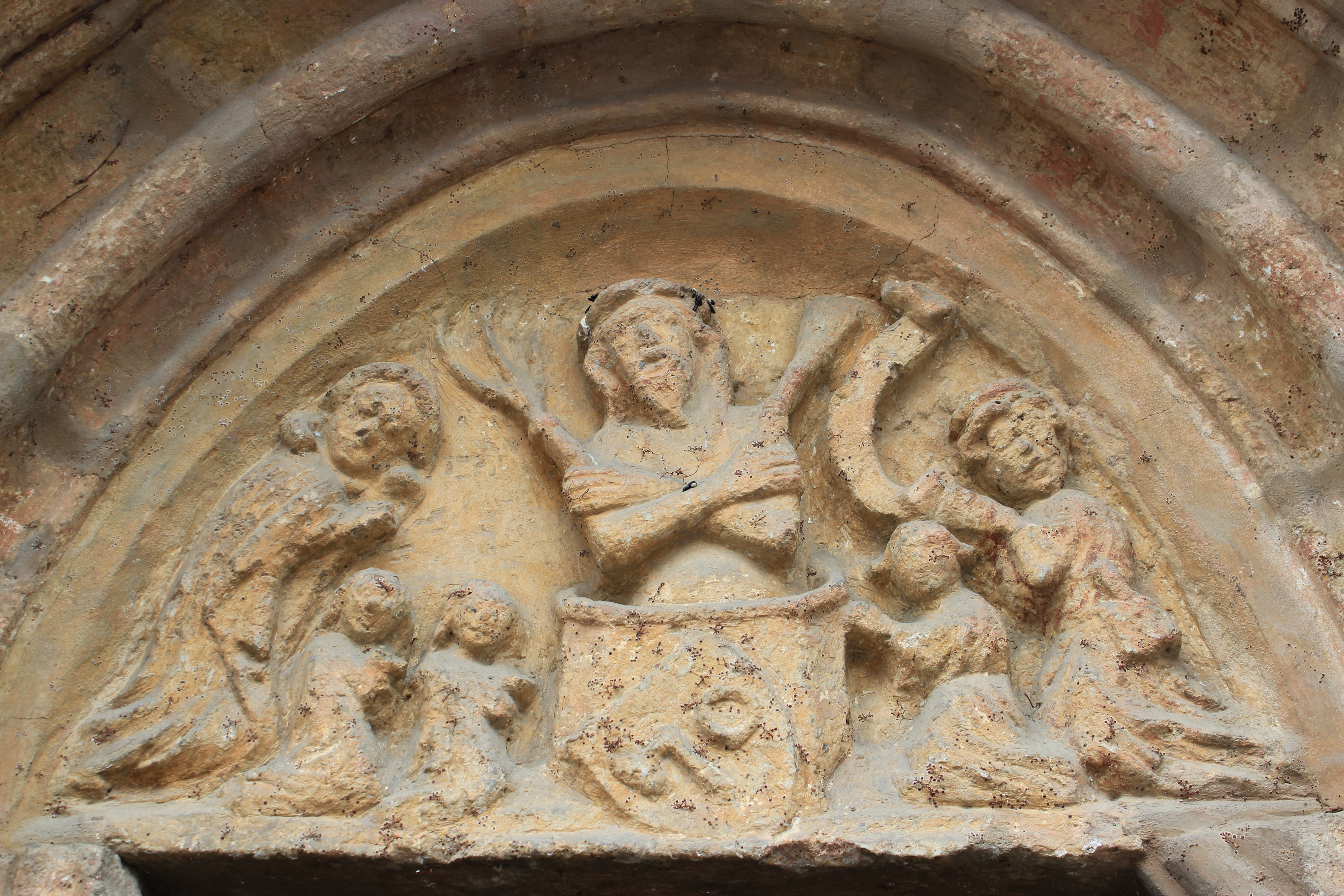 Former People-hospital-churchSankt Veit an der Glan - detail